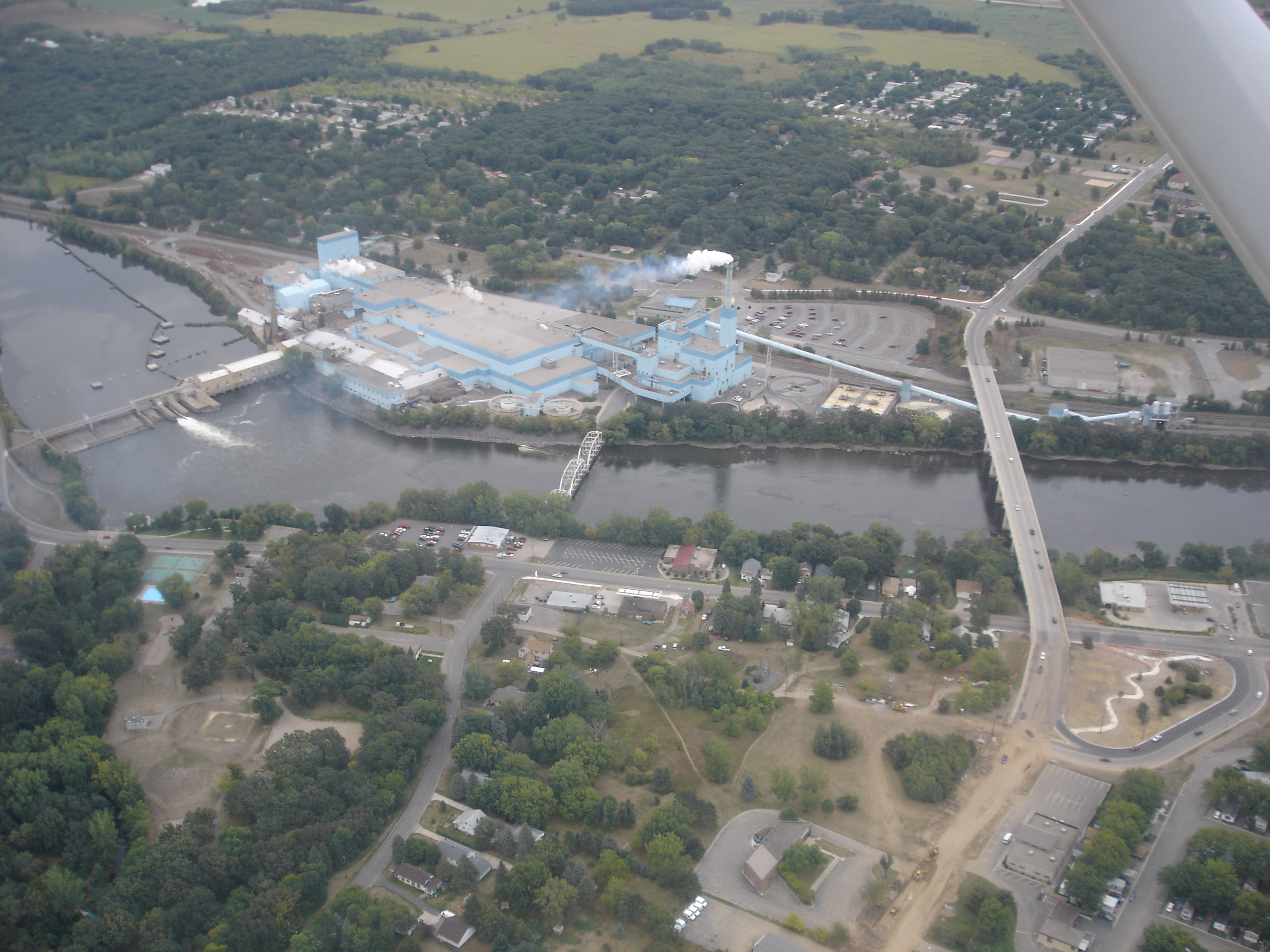 Sartell paper mill and dam